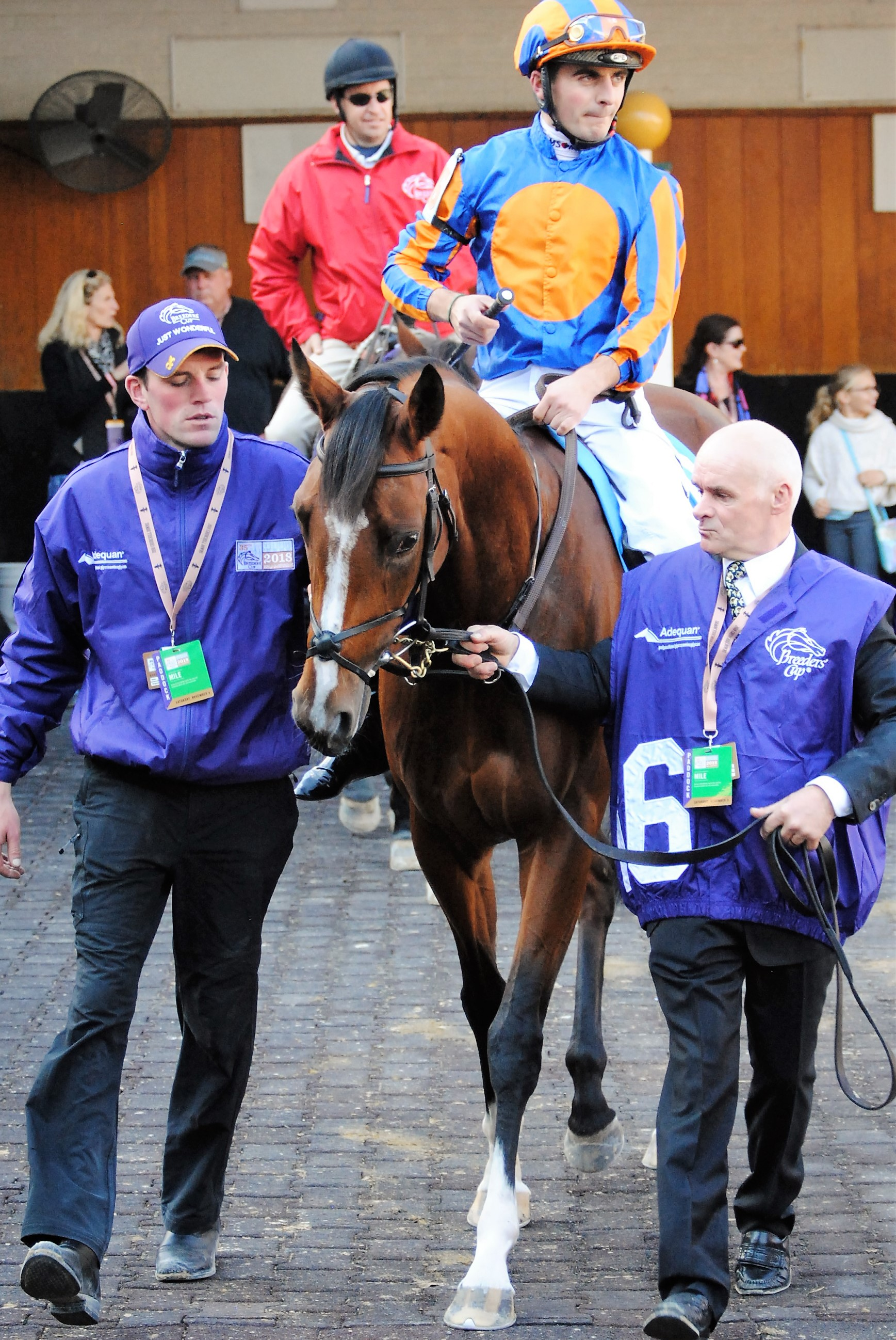 Clemmie and Andrea Atzeni at the 2018 Breeders' Cup